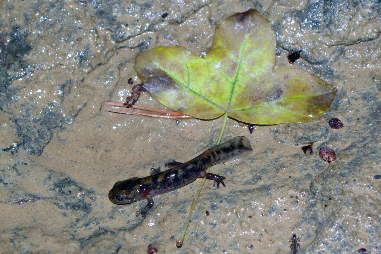 Larvae of Salamandra salamandra. San Zadornil, Burgos (España).